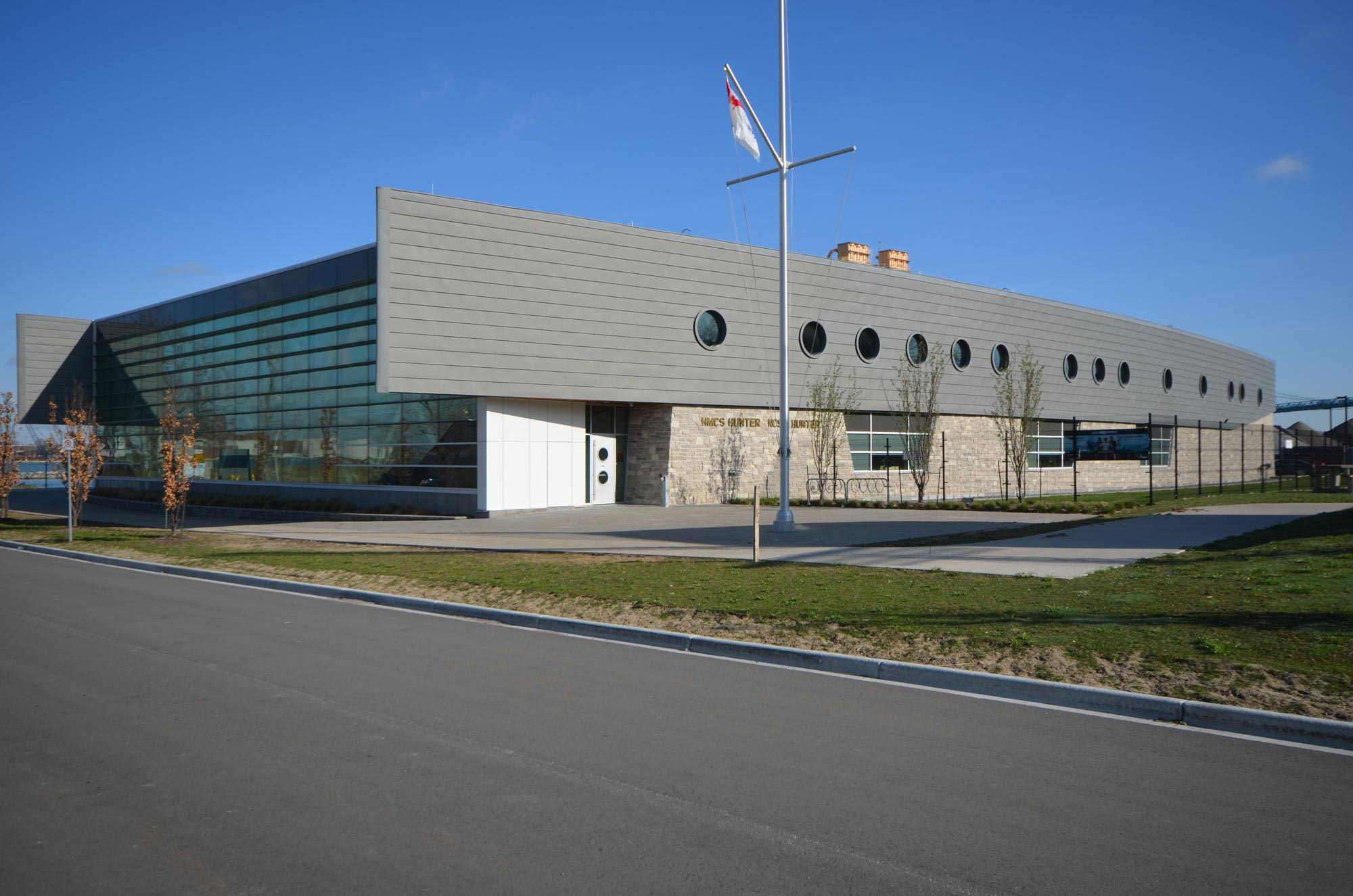 HMCS Hunter - stone frigate